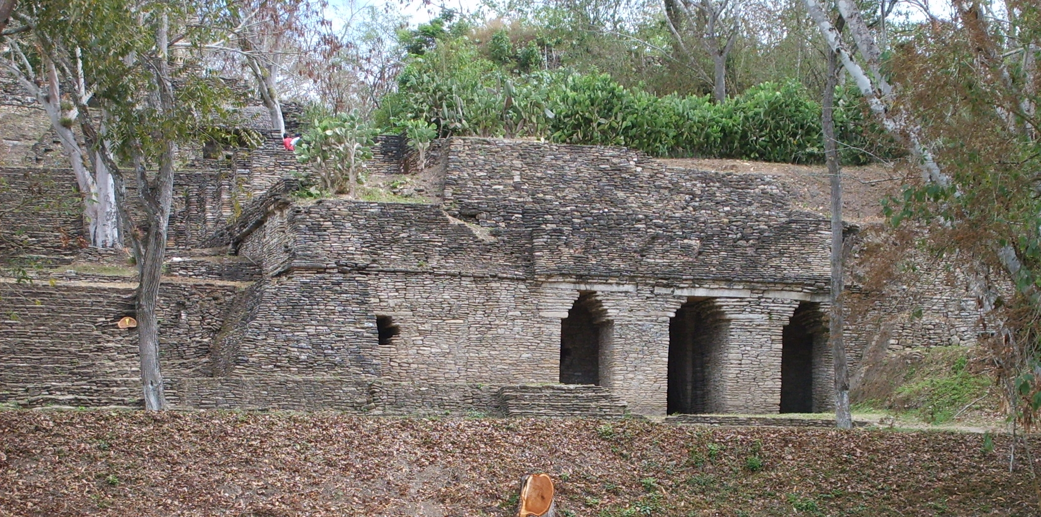 Entrance to the Palace of the Underworld at the Maya ruins of Toniná, Chiapas, Mexico.